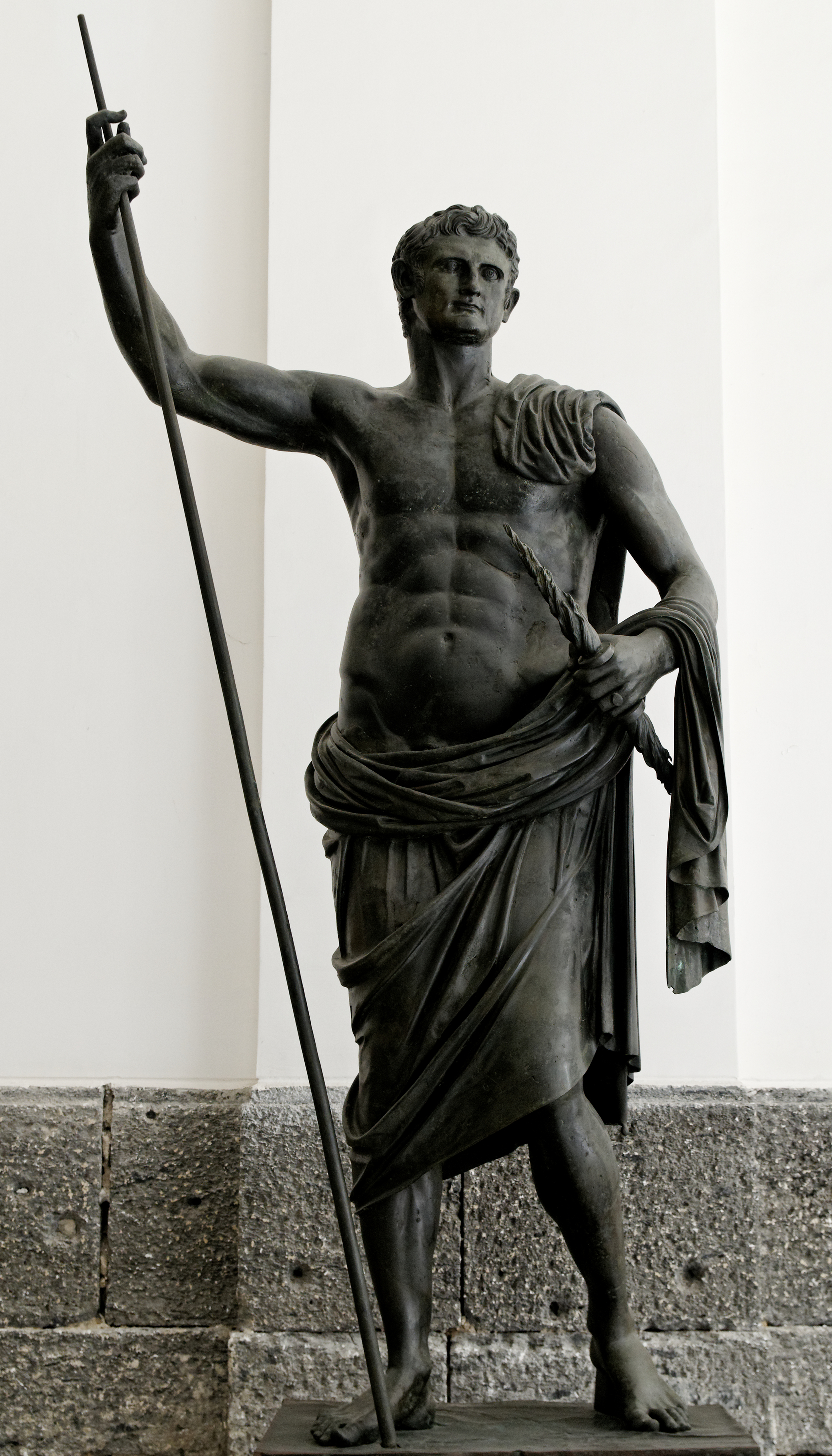 Statue of Emperor Augustus. Roman artwork.